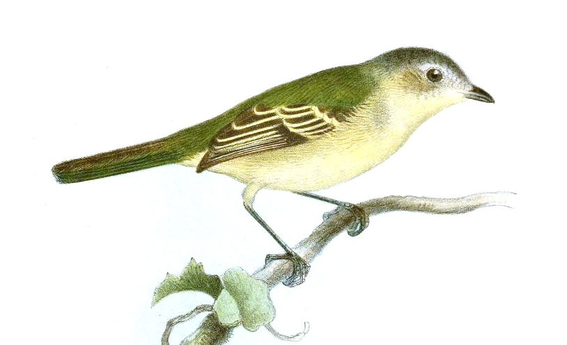 Tyranniscus gracilipes = Zimmerius gracilipes, Slender-footed Tyrannulet